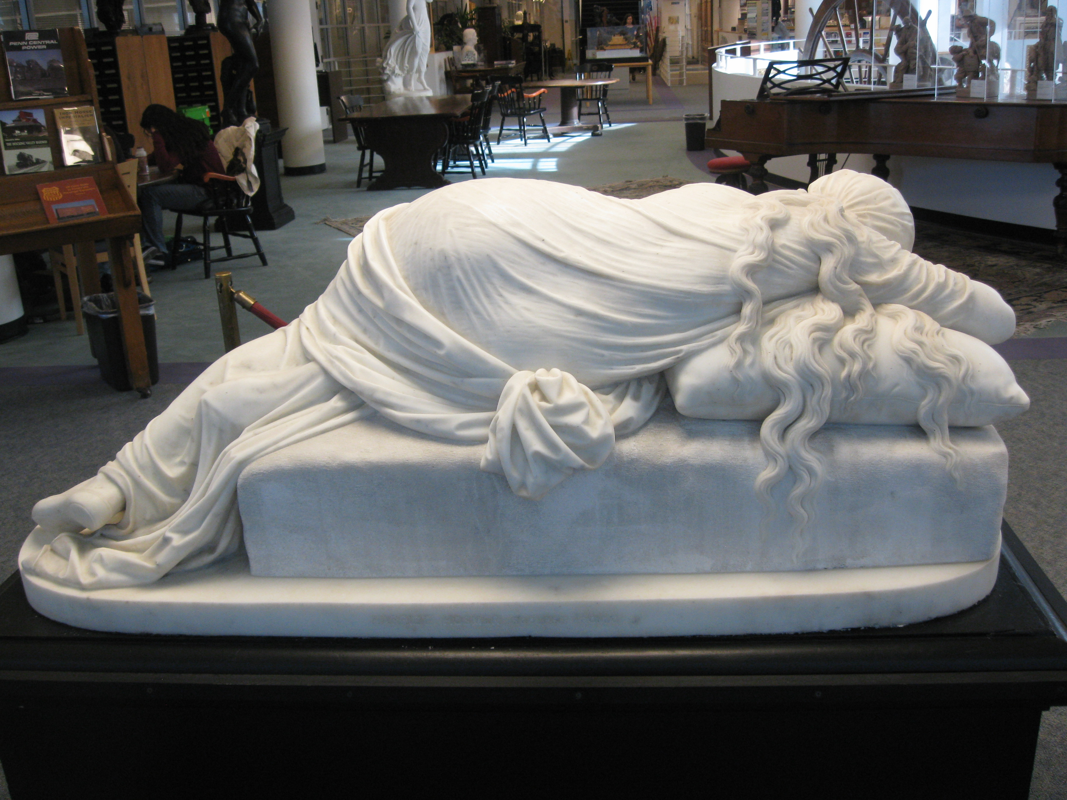 Back view of Beatrice Cenci, marble sculpture by Harriet Goodhue Hosmer. Location of sculpture is the Mercantile Library at the University of Missouri-St. Louis, St. Louis, Missouri, USA.